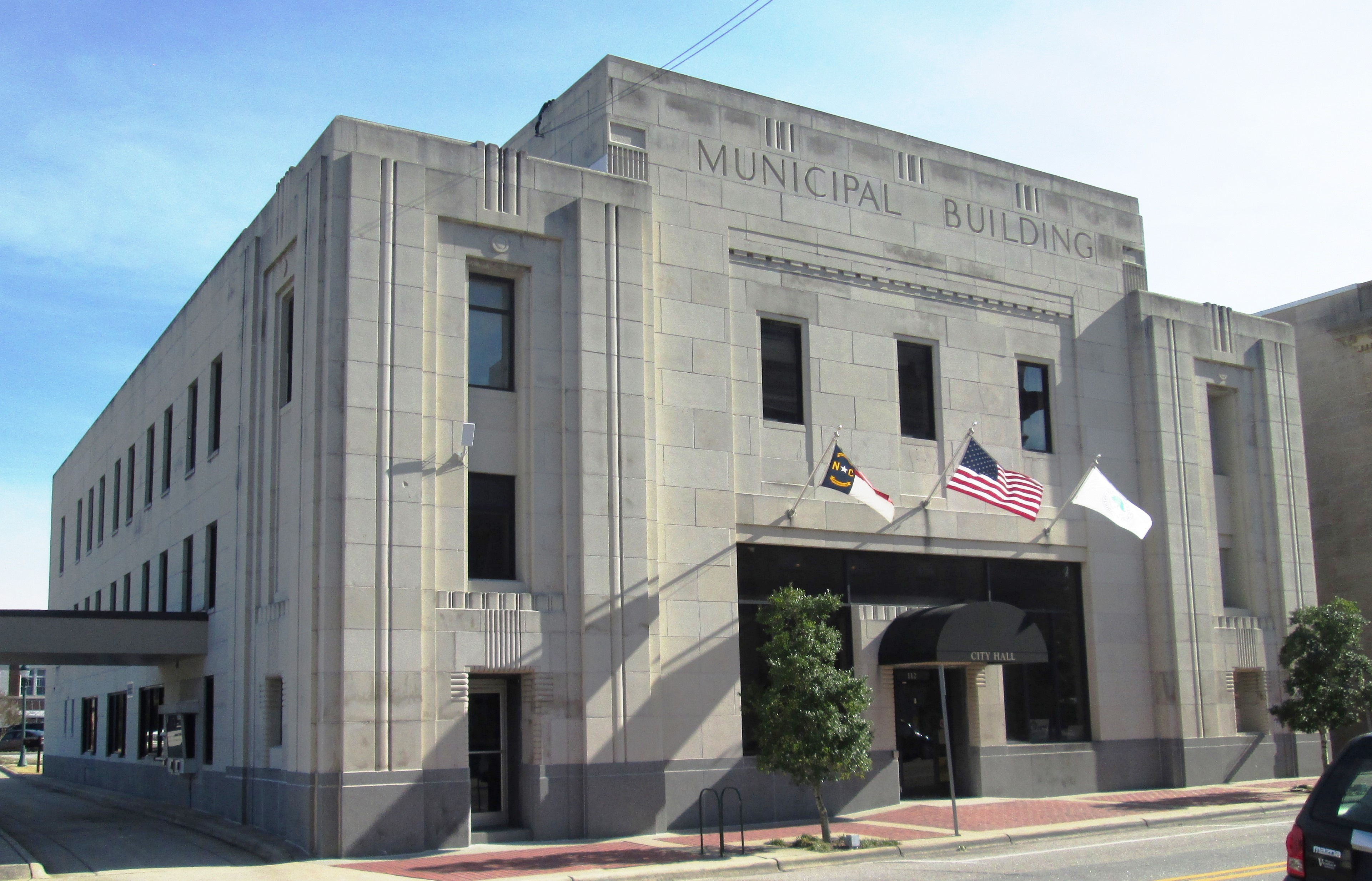 The Wilson Municipal Building, now referred to as City Hall, is located at 112 Goldsboro St. E. in Wilson, North Carolina. It was built in 1938 and was designed by Frank W. Benton in the Art Deco style, with funding from the Works Progress Administration (WPA). The brick building has a facade of limestone on the front (Goldsboro Street) side. It is a contributing property of the Wilson Central Business–Tobacco Warehouse Historic District, listed on the National Register of Historic Places. (Source: NRHP, #178)